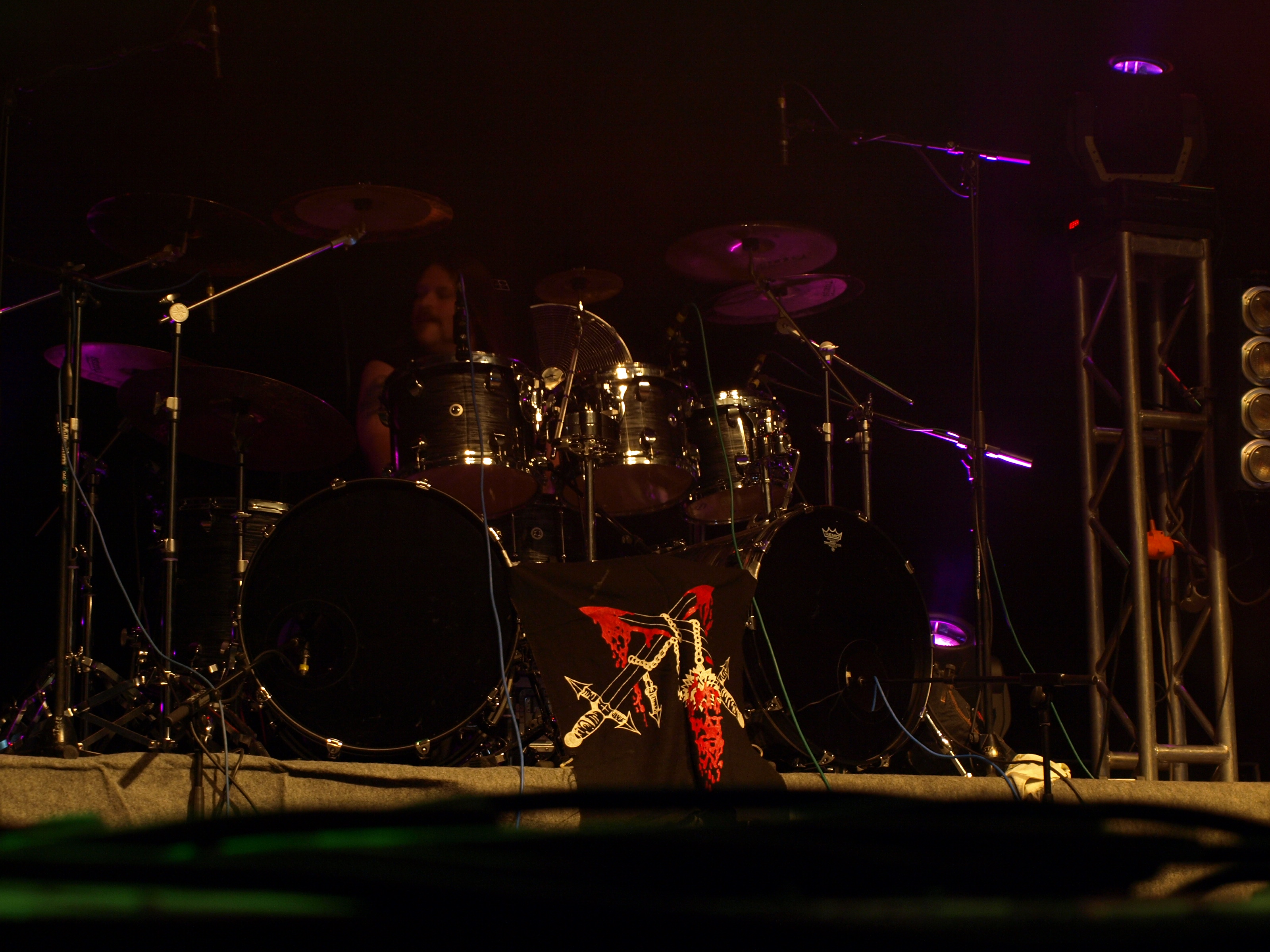 German thrash/black metal band Desaster live at Jalometalli 2008 in Oulu.